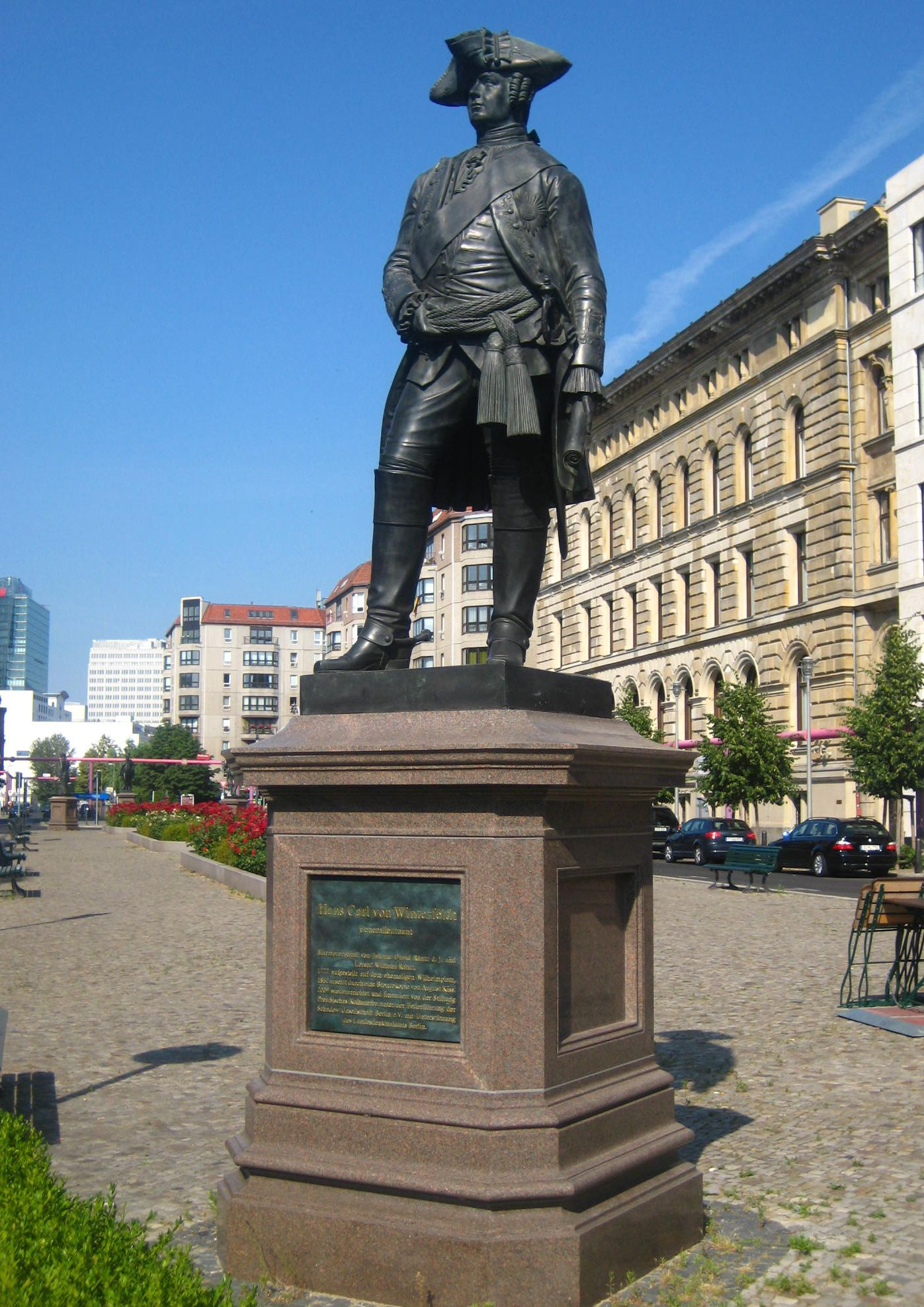 Memorial for General Field Marshal Hans Karl von Winterfeldt at the southeastern corner of Zietenplatz in Berlin-Mitte. A marble version of the memorial, created by Johann David Räntz and Johann Lorenzl, was first erected on nearby Wilhelmplatz (which now longer exists) in 1777. In the 19th century, it was replaced by a bronze version by August Kiß who redesigned the monument. The original mable sculpture now has its place in the Bode-Museum; Kiß' version was removed in WWII and, after being stored away for decades, was re-erected near the original site in September 2009.